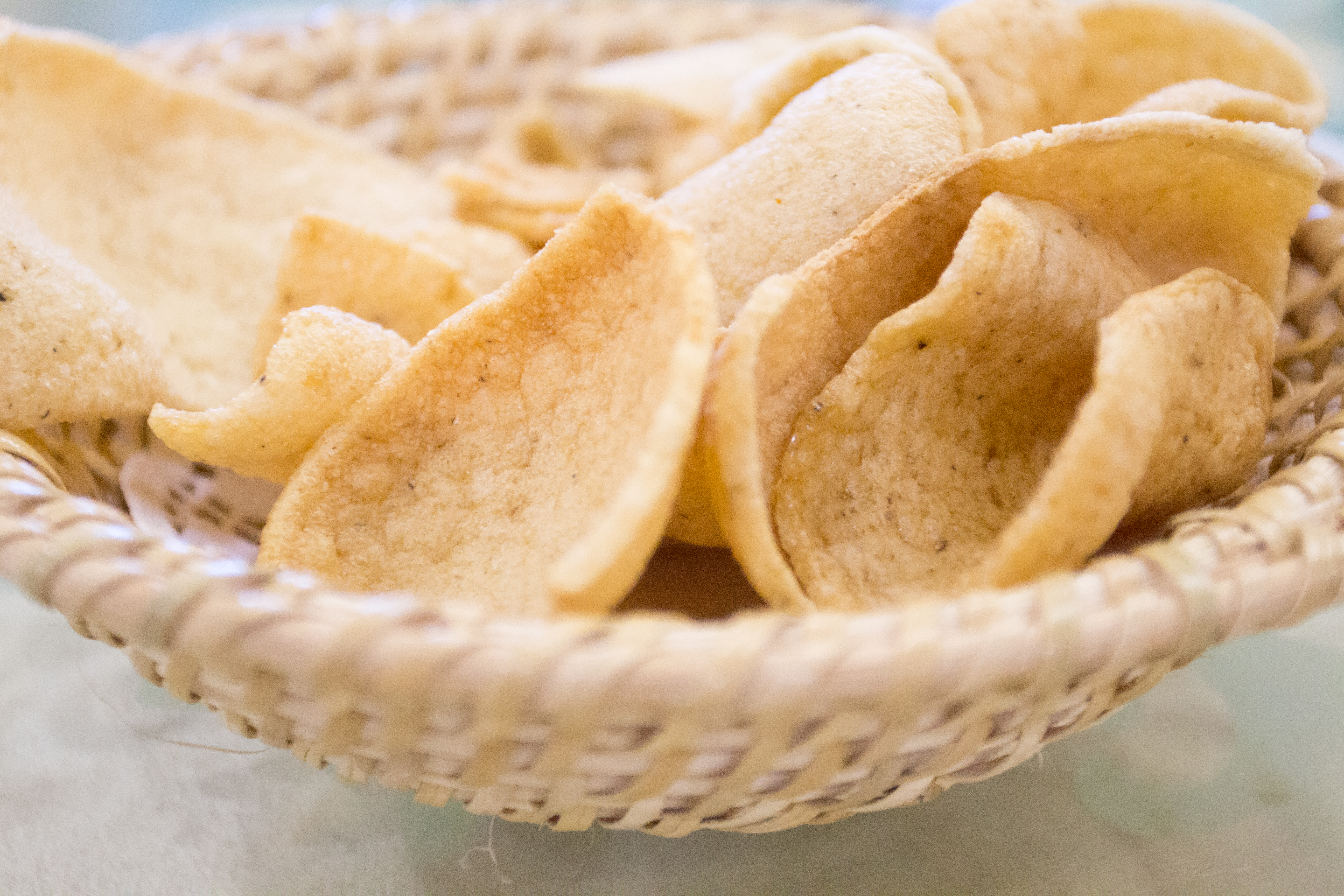 Prawn Cracker with Black Pepper